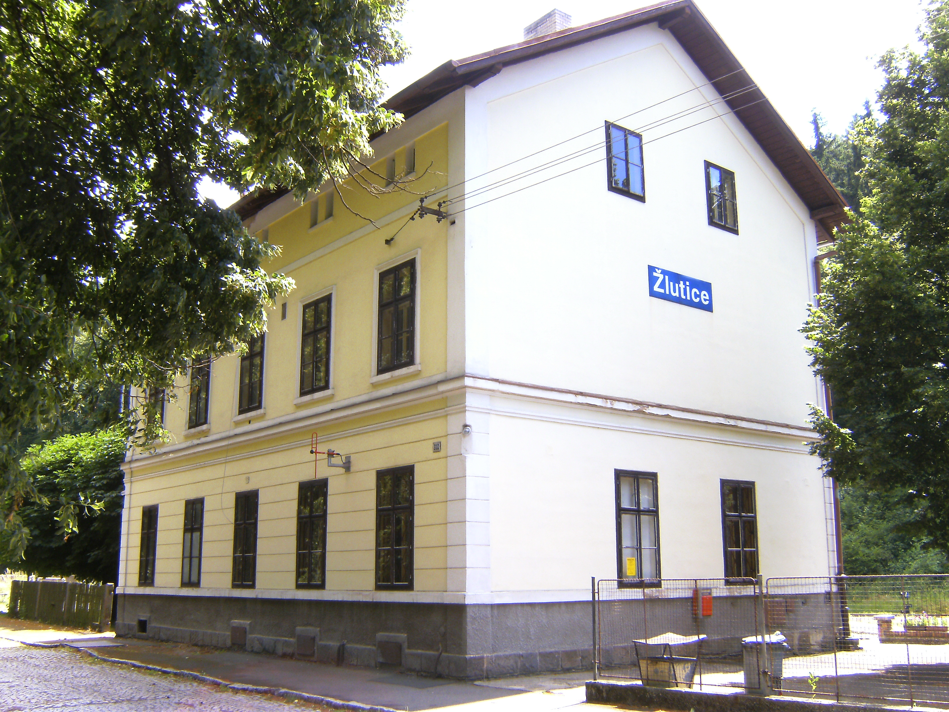 Station at Žlutice